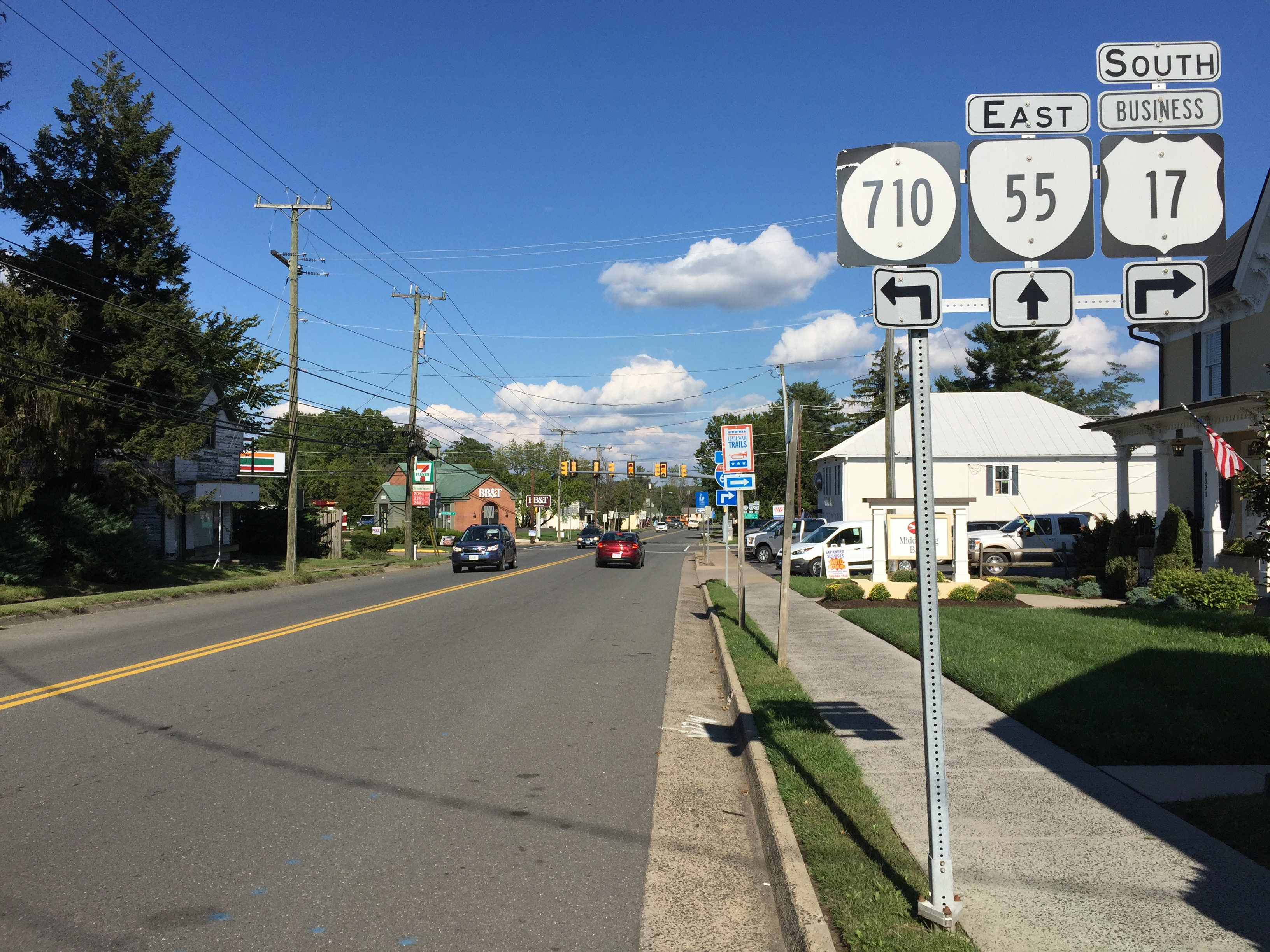 View south along U.S. Route 17 Business and east along Virginia State Route 55 (Main Street) at Rectortown Road (Virginia State Secondary Route 710) and Winchester Road in Marshall, Fauquier County, Virginia